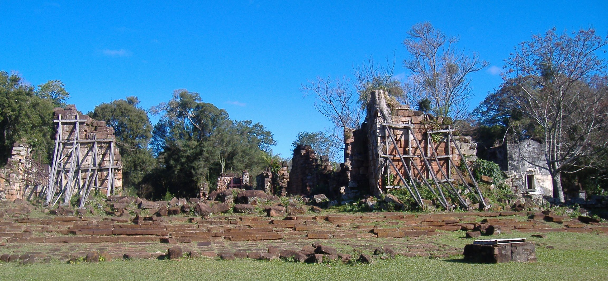 Ruins of the church of the Jesuit-Guarani mission of Nuestra Señora de Santa Ana, in Misiones, northeastern Argentina.